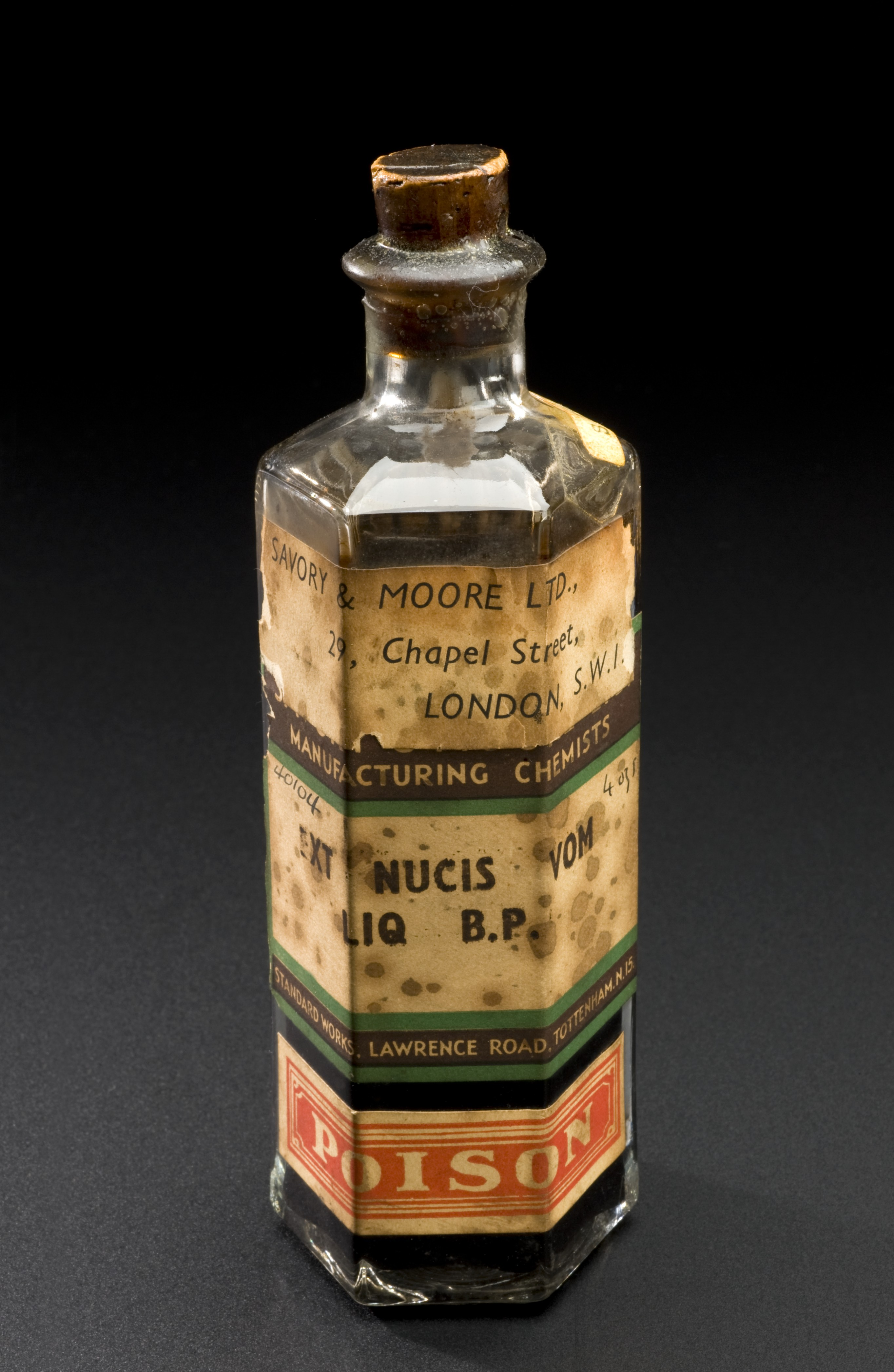 Nux vomica is a bitter-tasting drug extracted from the poisonous strychnine-containing seeds of a tree that is native to parts of Asia and Australia. Nux vomica translates from Latin as “vomiting nut” – it can be highly toxic and has long been used to make rat poisons. The drug has stimulating properties when used in small quantities and strychnine itself is a known heart stimulant. It has been used as a tonic and was recommended as a treatment for post anaesthetic shock and resuscitation. In larger doses it can cause convulsions and death. This is not untypical – quite a number of previously common drugs contained highly poisonous components. The ridged glass bottle design indicates that the contents are poisonous. maker: Savory and Moore Limited Place made: London, Greater London, England, United Kingdom Wellcome Images Keywords: Strychnine; anaesthetic; Resuscitation; nux vomica; bottle